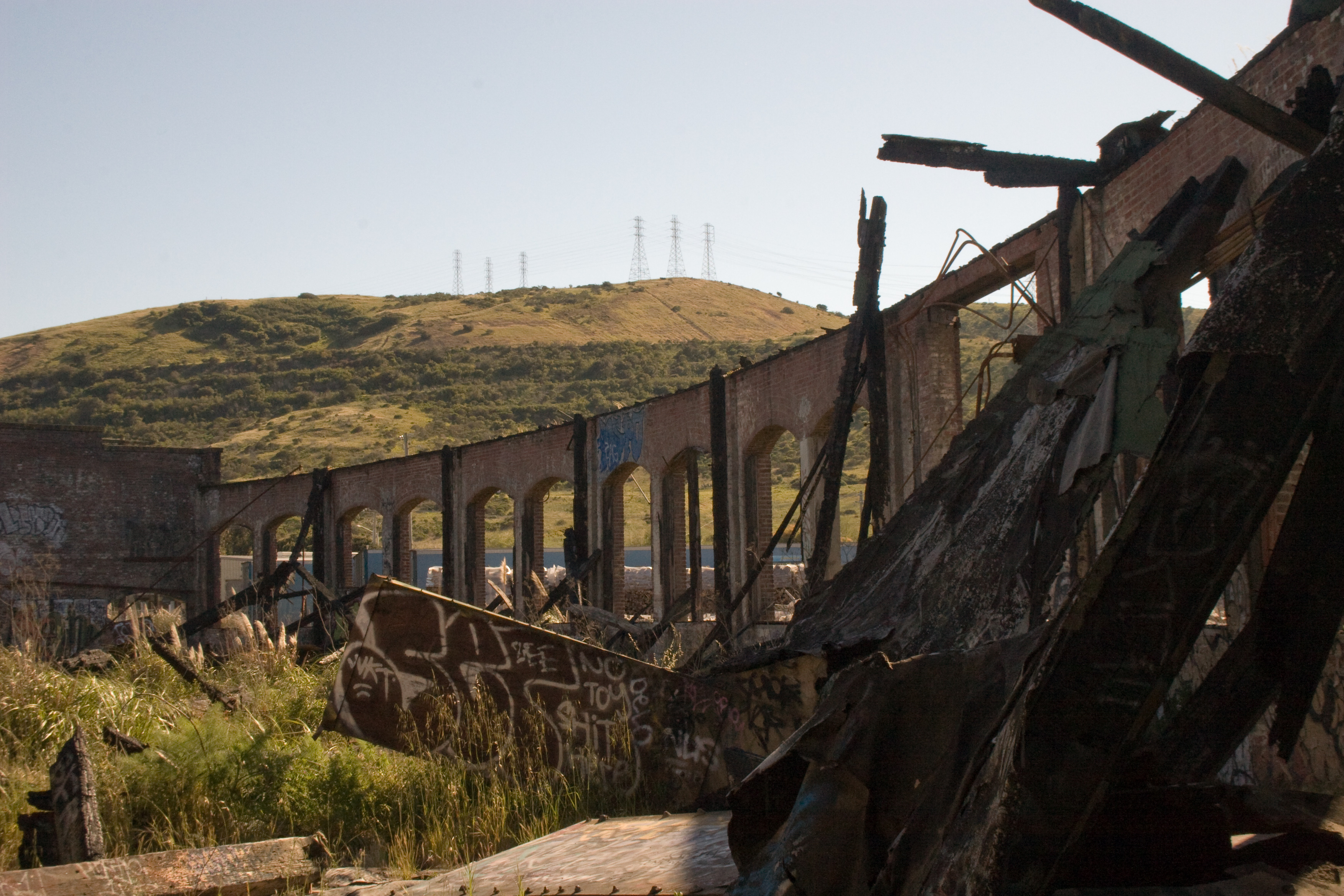 Roundhouse, The Arches Round Back